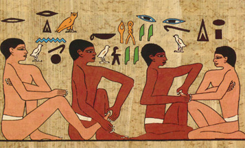 The picture about the history of manicure